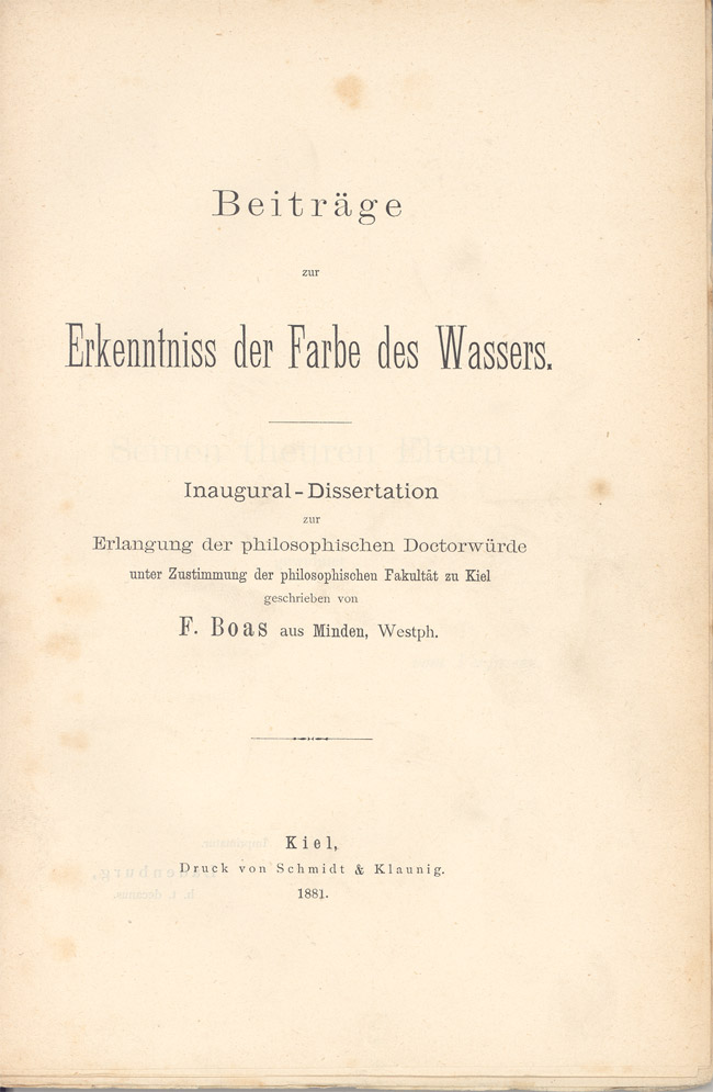 Franz Boas: Beiträge zur Erkenntniss der Farbe des Wassers. Dissertation, Kiel 1881